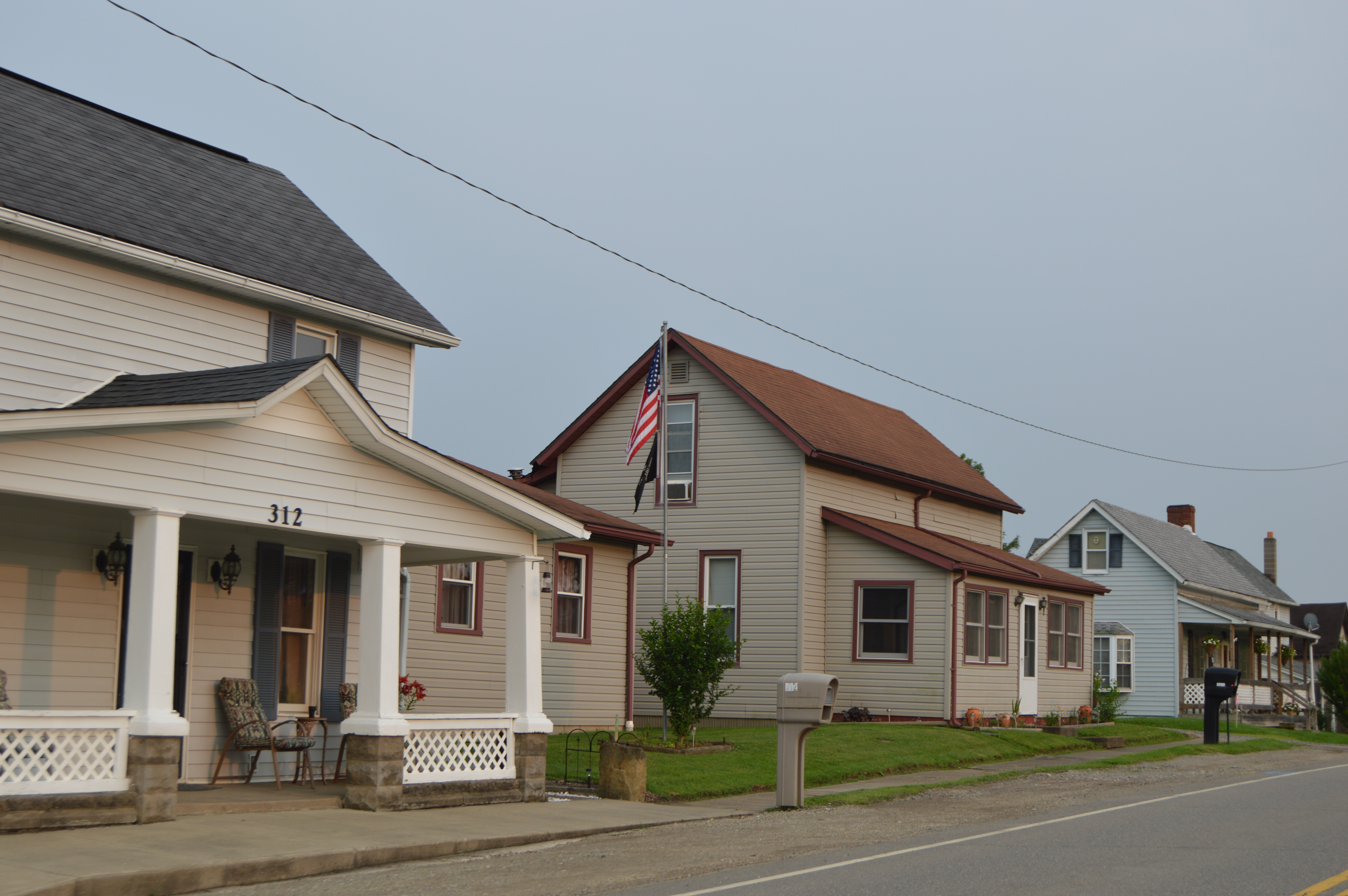 Houses on the eastern side of the 300 block of N. High Street (State Route 285) in Senecaville, Ohio, United States.